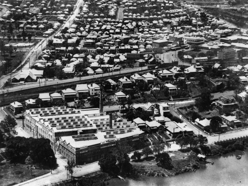 Aerial view of Petrie Terrace, Brisbane, ca. 1925. Morrows Biscuit Factory (later to become Arnott Morrows) on River Road (renamed Coronation Drive in 1937), Milton, appears in the foreground.